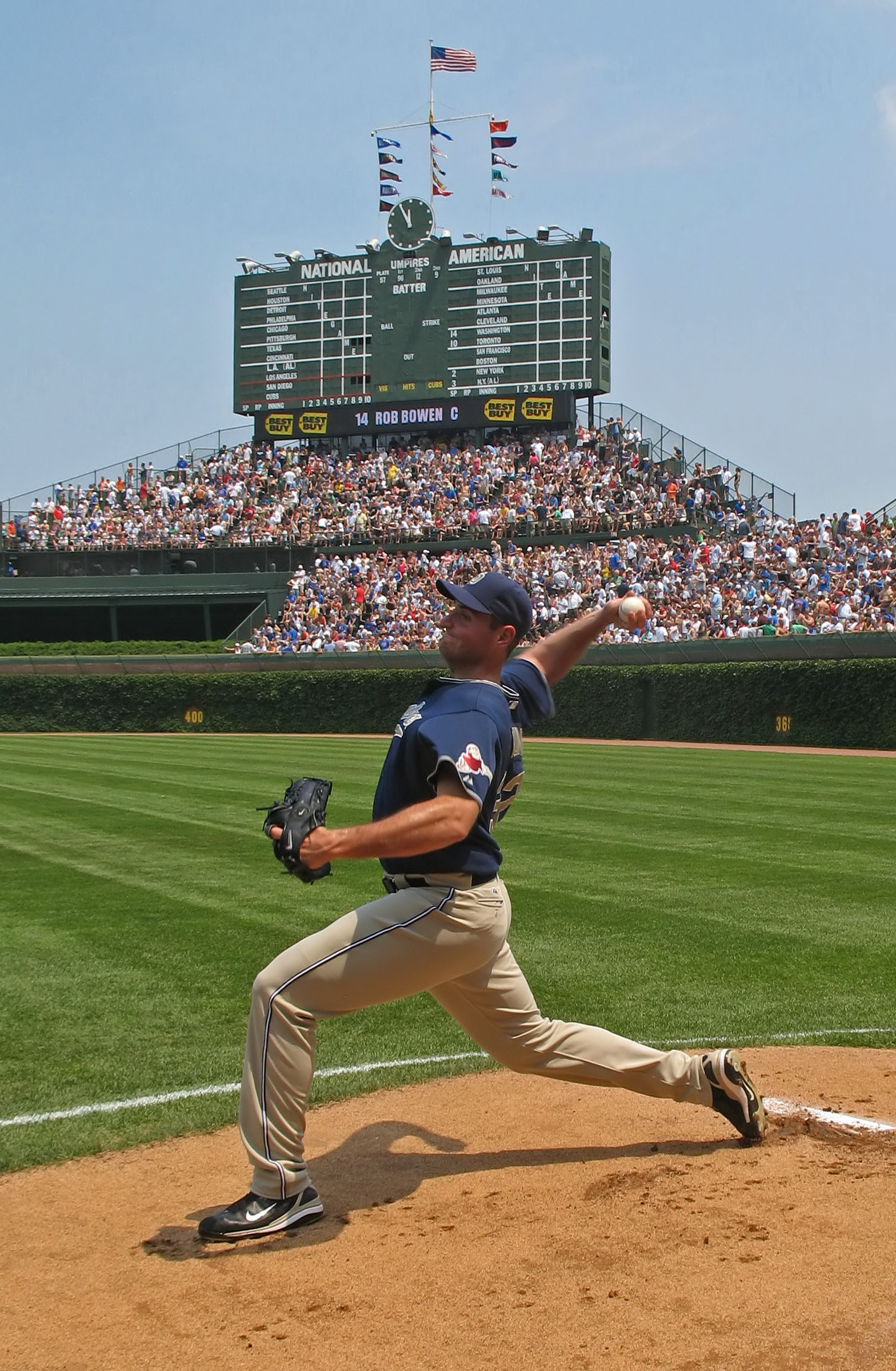 Chris Young with the San Diego Padres winding up for a four-seam fastball in the bullpen while warming up. This image was taken on the day that starting pitcher Young (pictured) and Derek Lee had a bench clearing incident. The picture captures a grip for a type of fastball known as a four-seam fastball. It also depicts the Wrigley Field bullpens which are located in playable foul territory. Furthermore, it shows the old fashioned scoreboard and the 2005-06 reconstruction of the centerfield bleachers. You can note that this is pregame warmups for the 12:05 start by the 11:55 time on the scoreboard. This is just a few weeks before Young was added to his first Major League Baseball All-Star Game roster as a pitcher via the All-Star Final Vote.